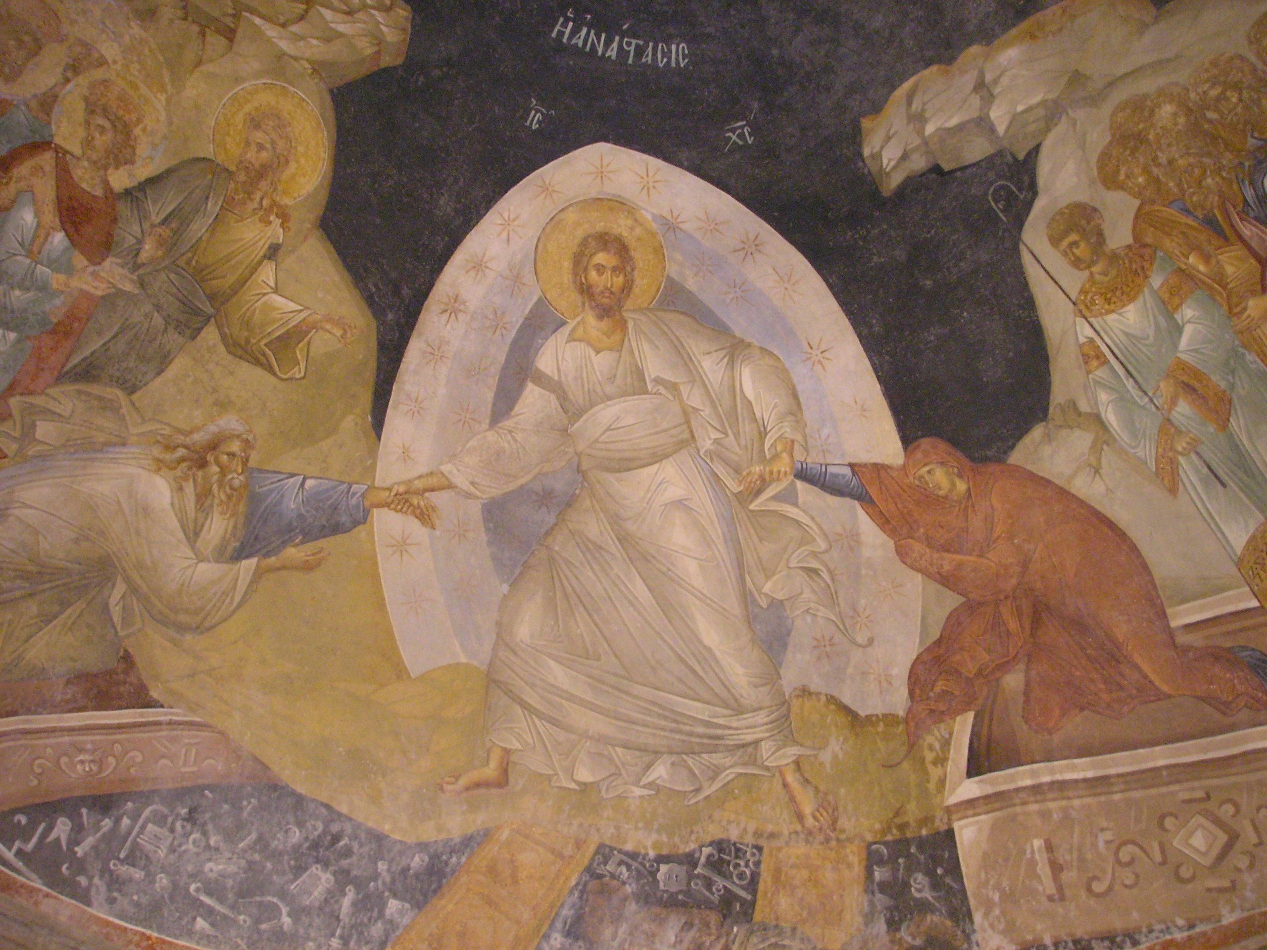 Byzantine paintings in the parecclesion of the Chora Church in Istanbul, depicting the anastasis.